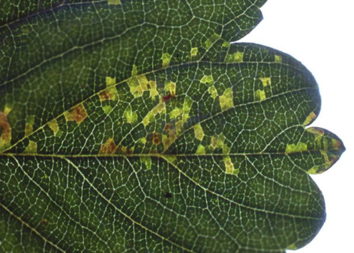 When held up to light, angular translucent spots appear as a result of angular leaf spot disease. This is on a strawberry leaf.